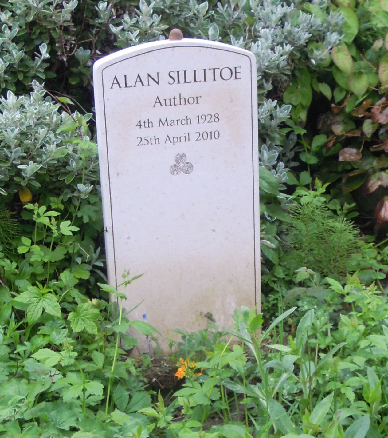 The grave of Alan Sillitoe at Highgate Cemetery